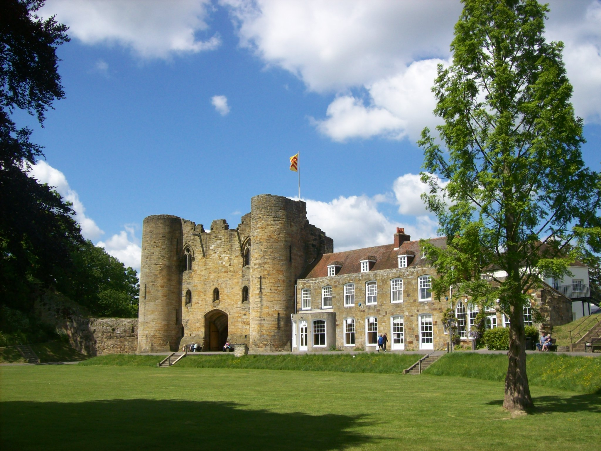 Tonbridge Castle